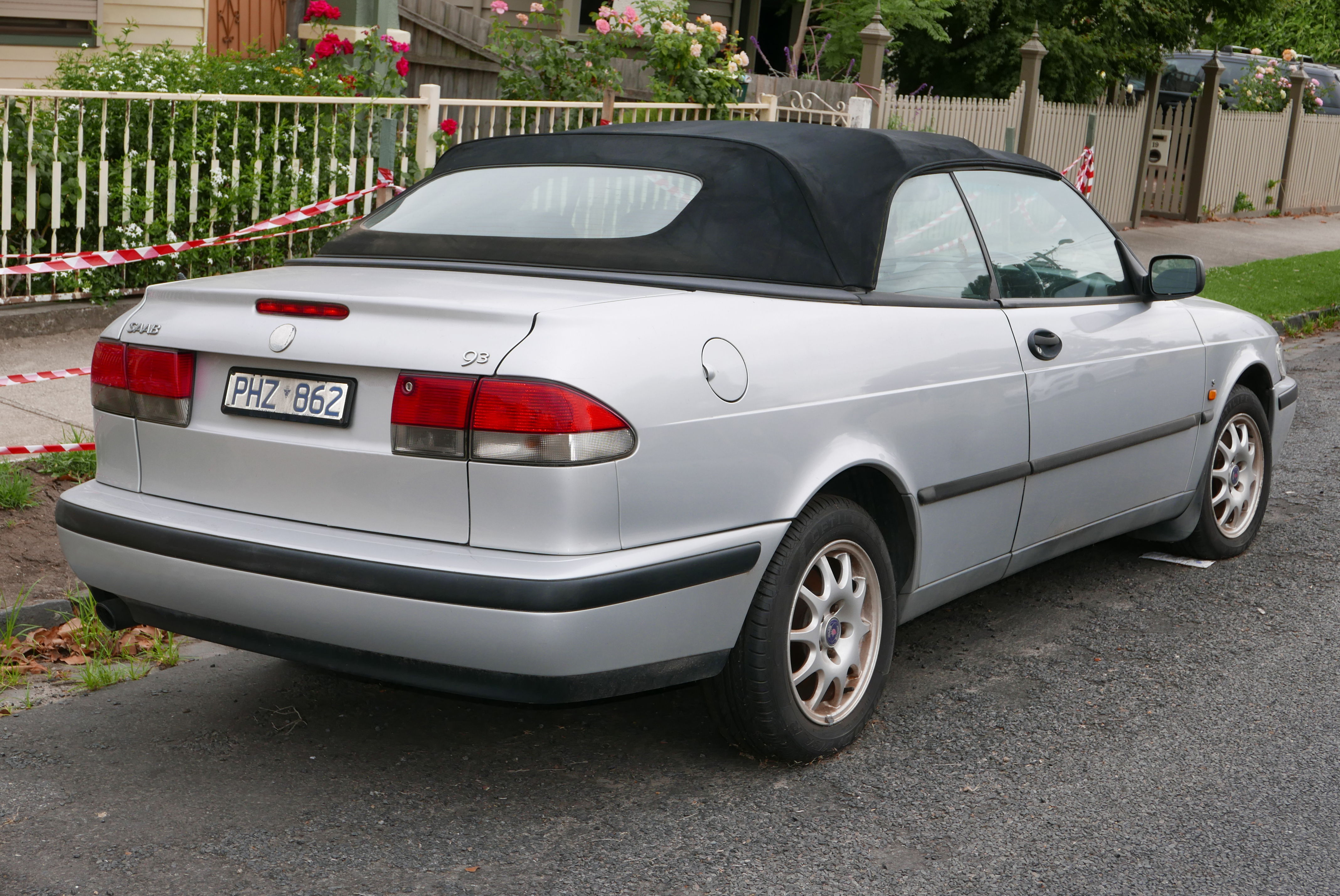 1998 Saab 9-3 S 2.0t convertible. Photographed in Coburg, Victoria, Australia. Vehicle registration enquiry results Jurisdiction Victoria Registration PHZ862 Chassis code YS3DD78T2X7022542 Engine code B204EDA00X033915 Compliance date 1998-12 Year of manufacture 1998